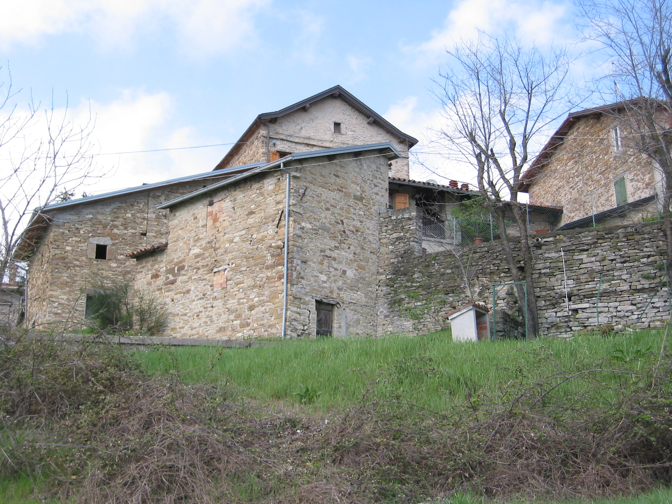 Old houses near La Chiastra, Beduzzo (Corniglio, Parma, Italy)